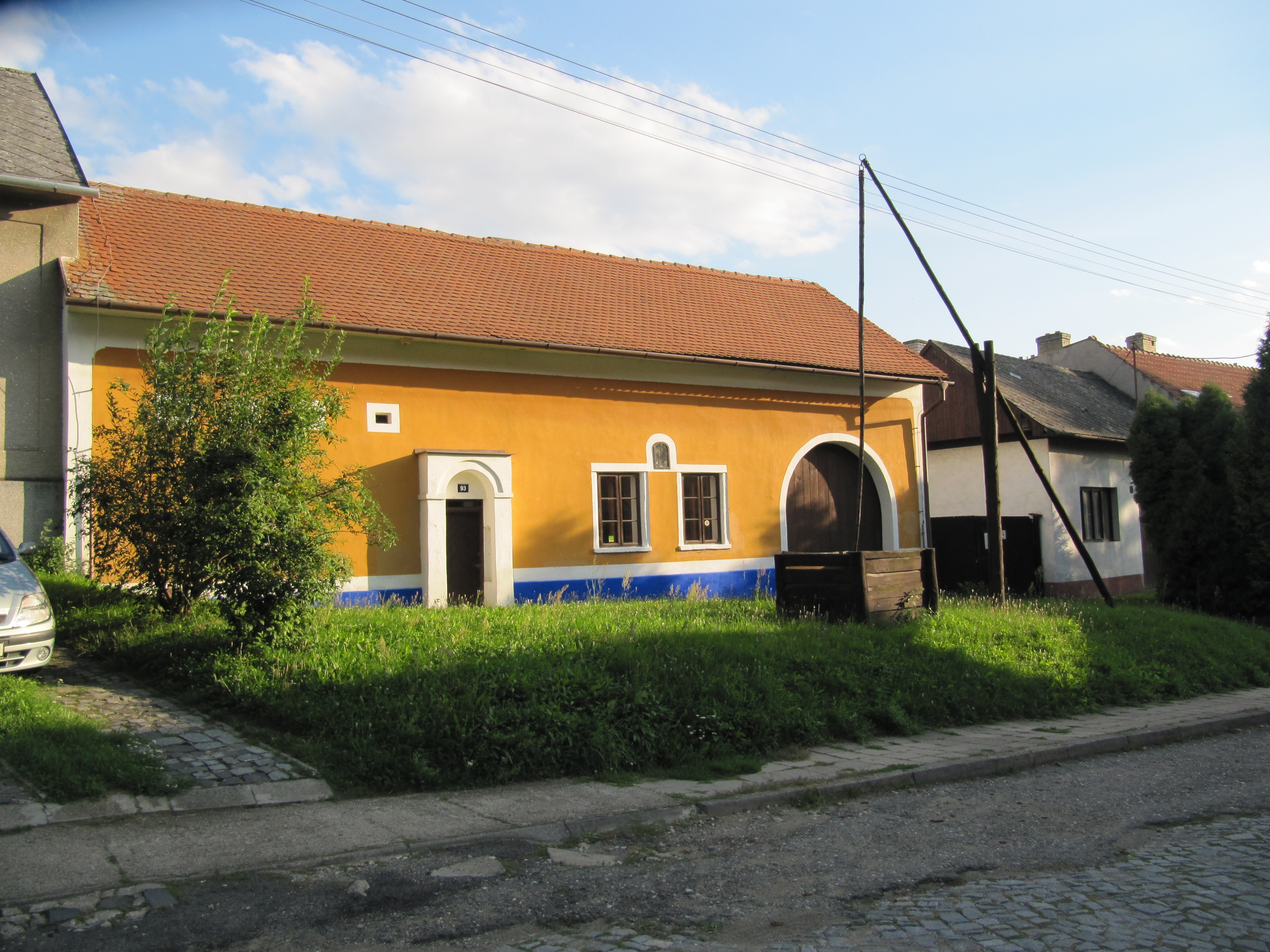 Topolná in Uherské Hradiště District, Czech Republic. Listed house Nr. 93.